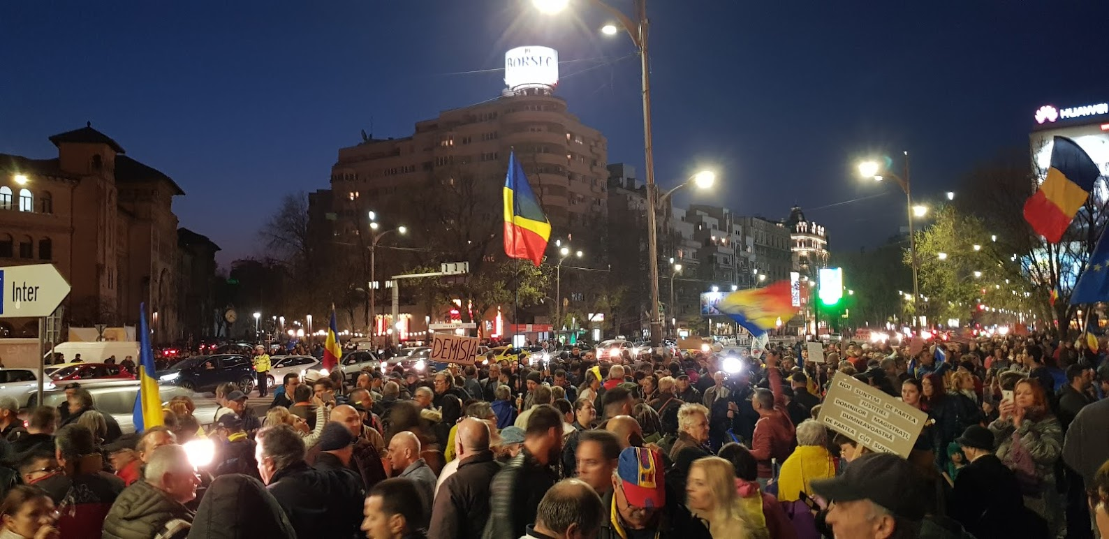 Protest against corruption, Bucharest 2019, Universității Square